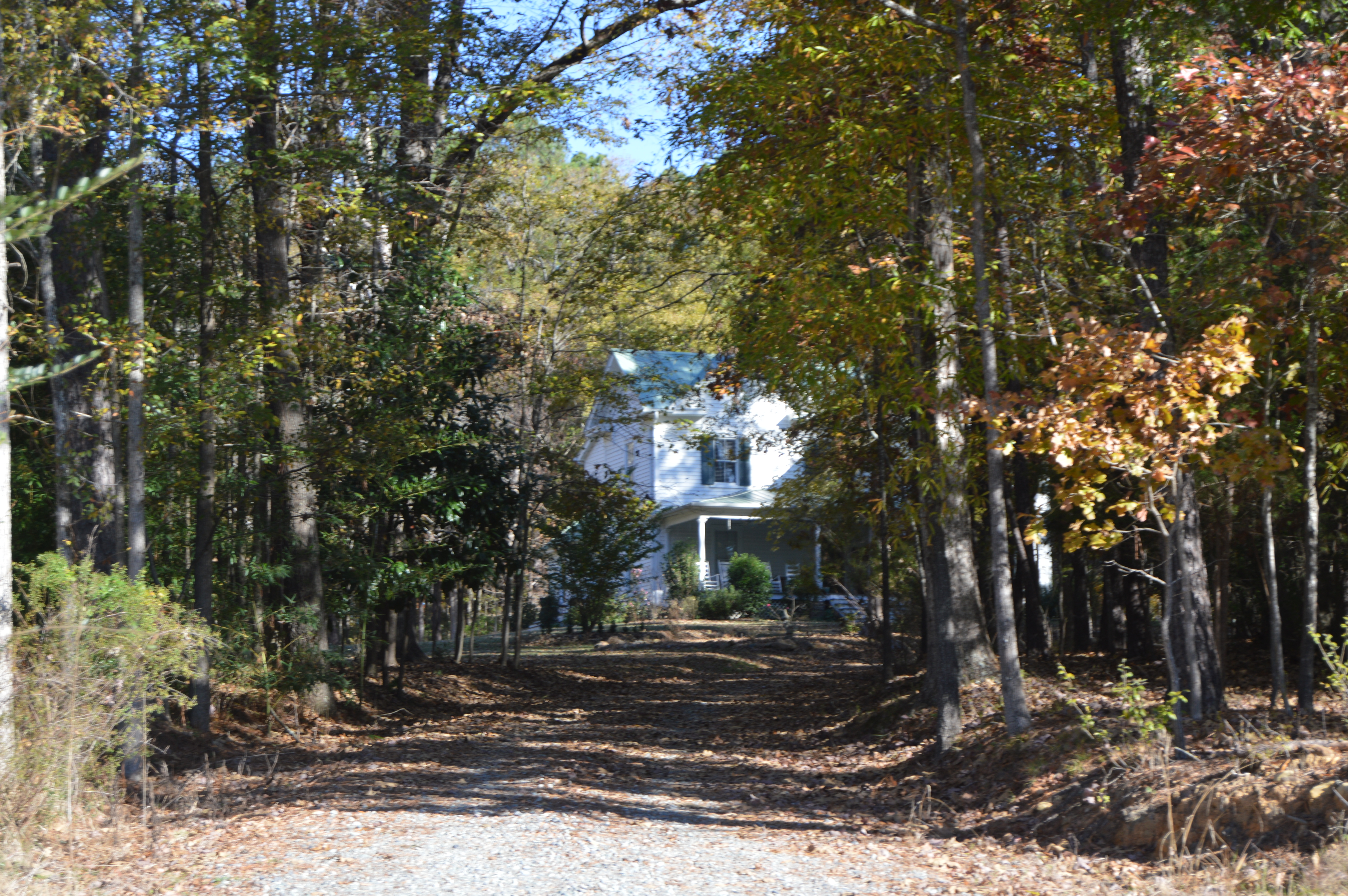 Looking down the driveway toward the Sheriff Stephen Wiley Brewer Farmhouse, located at 365 Thompson Street in Pittsboro, North Carolina, United States. Built in 1887, it is listed on the National Register of Historic Places.